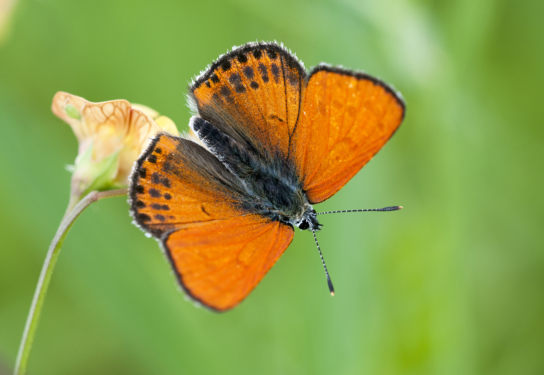 Wing upperside of male Lesser Fiery Copper (Lycaena thersamon). Çukurova University Campus, Adana - Turkey.